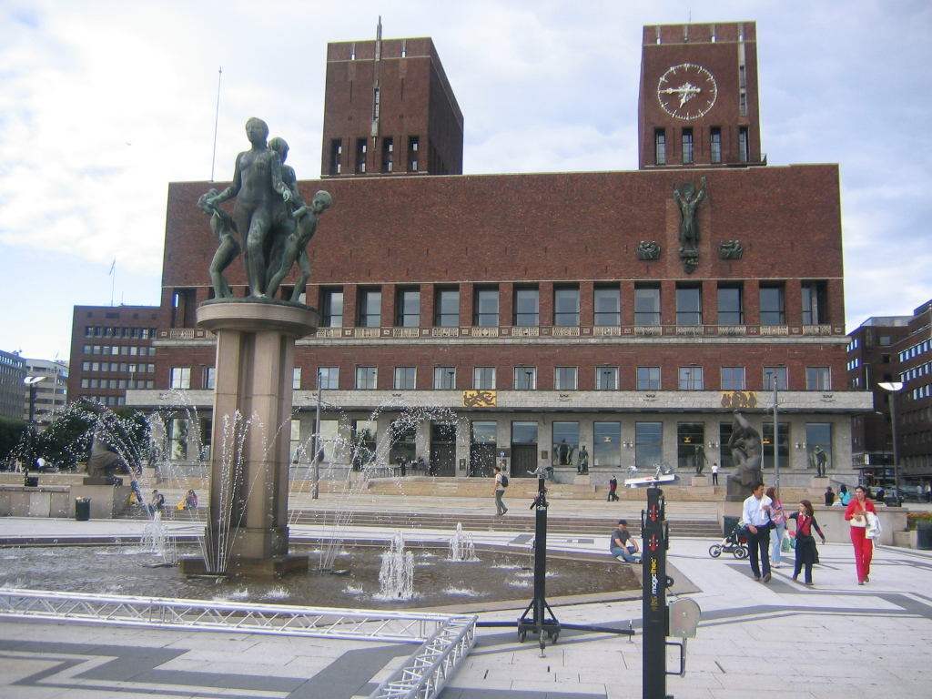 The Townhall of Oslo